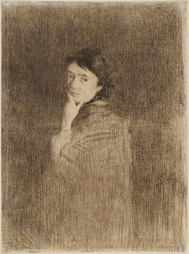 Portrait of Olga Fialka